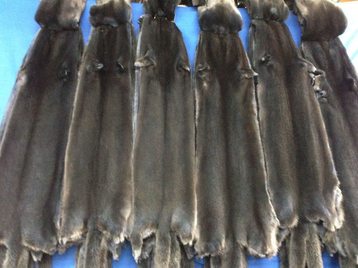 Mink skins, Black Nafa F2 steelbluedyed (2017).